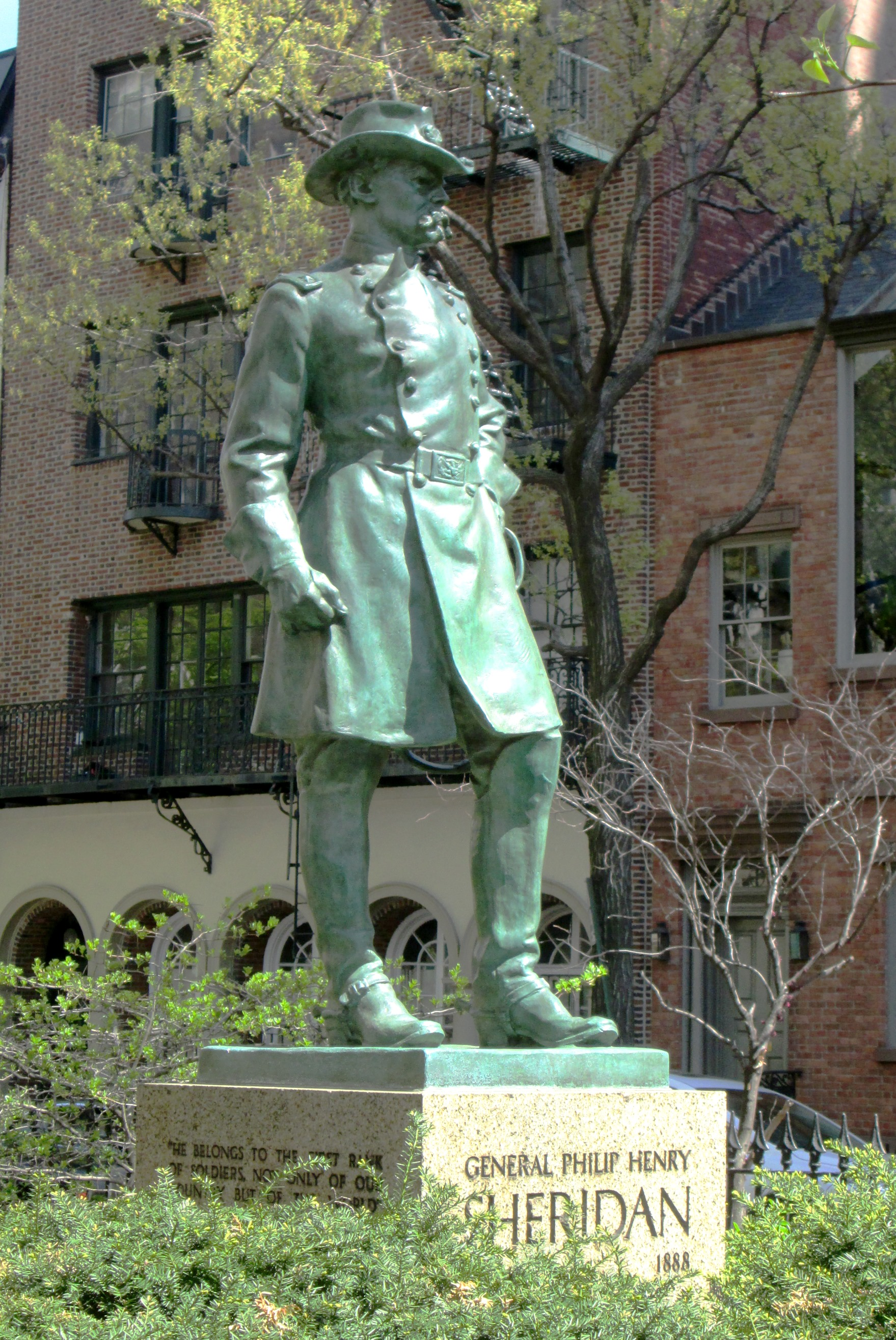 A bronze statue of Civil War General Philip Henry Sheridan by Joseph P. Pollia was installed in Christopher Park in 1936. (Source: "Christopher Park" on the NYC Department of Parks & Recreation website)